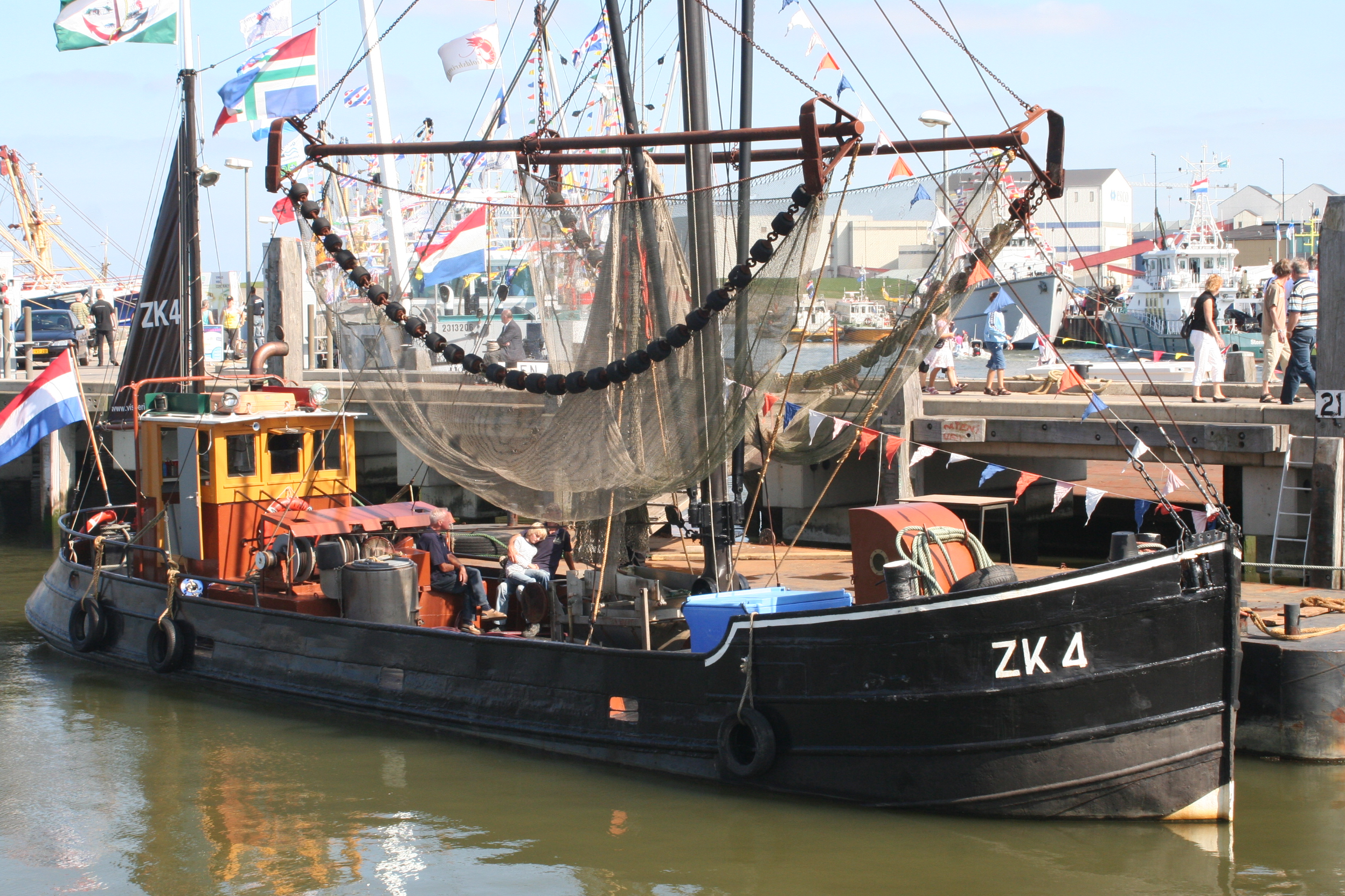 Fishing boat in the harbour, exhibition 2008 (Fishermen days, Visserij Dagen)